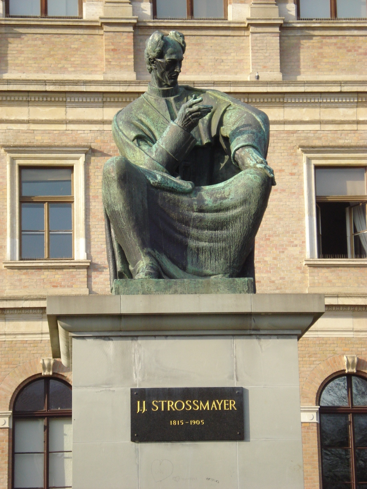 Josip Juraj Strossmayer memorial in Zagreb, Croatian Roman Catholic bishop of Đakovo, Bosnia and Srijem (Syrmia), sculptor: Ivan Meštrović